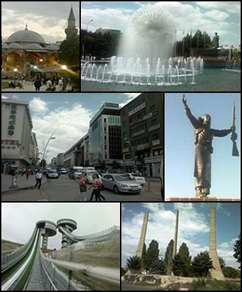 Photos used in this montage (from top to bottom and from left to right: 1-Erzurum Lala Mustafa Paşa Camii4.jpg 2-Erzurum Havuzbaşı Meydanı.jpg 3-Erzurum Cumhuriyet Caddesi3.jpg 4-Türk kadınını simgeleyen Nene Hatun Heykeli(Erzurum Tabyalar.jpg 5-Erzurum Kiremitliktepe Kayakla Atlama Kuleleri1.jpg 6-Erzurum Özgürlük Anıtı.jpg